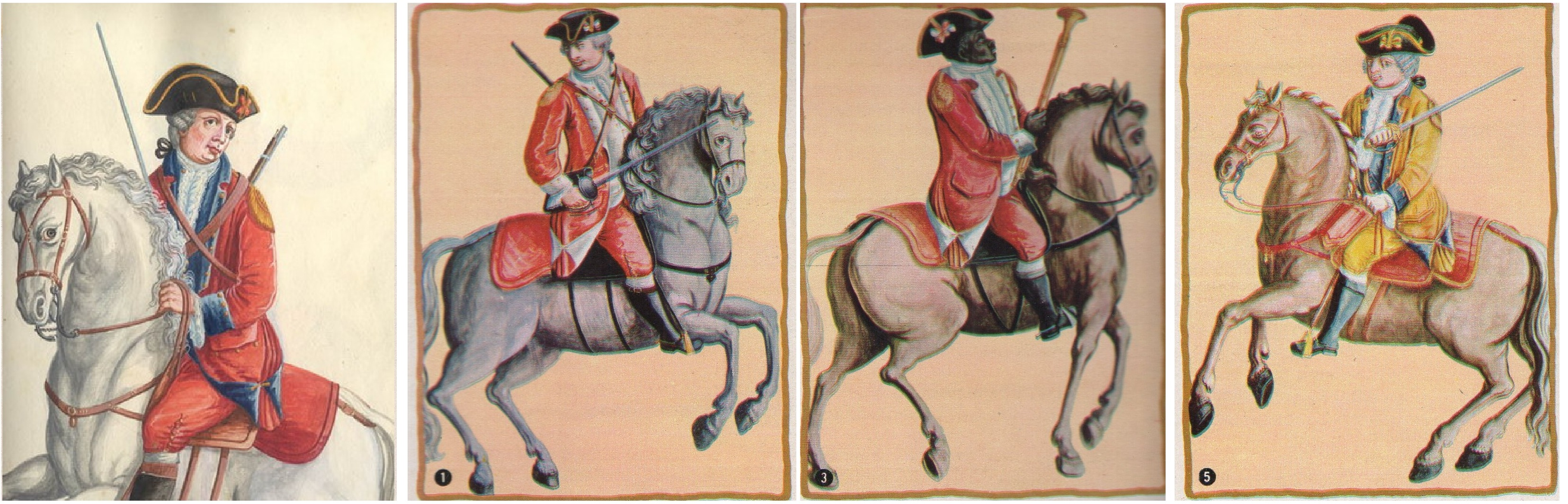 Cavalry officers. Colonial Brazil, XVIII century